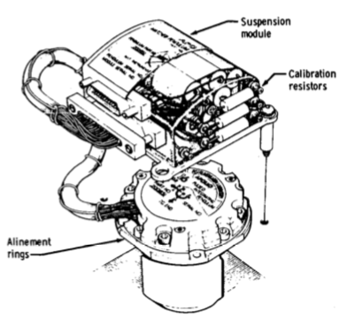 Diagram of the Pulsed Integrating Accelerometer Assembly used it the Apollo guidance system's IMU